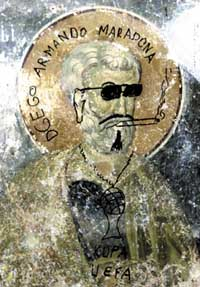 Destructed icon in Matejče Monastery, Macedonia